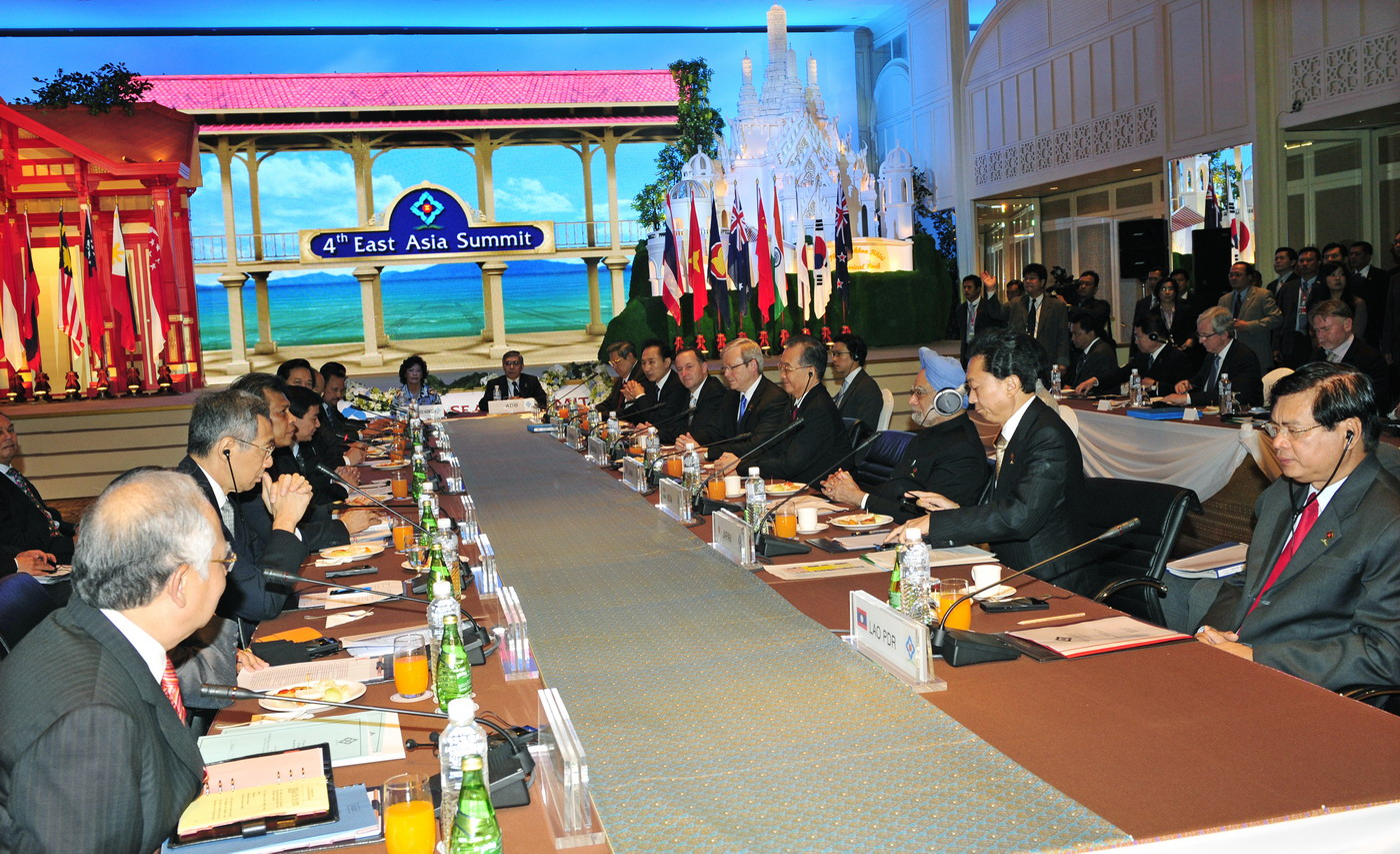 The 4th East Asia Summit in Thailand, Oct. 25, 2009